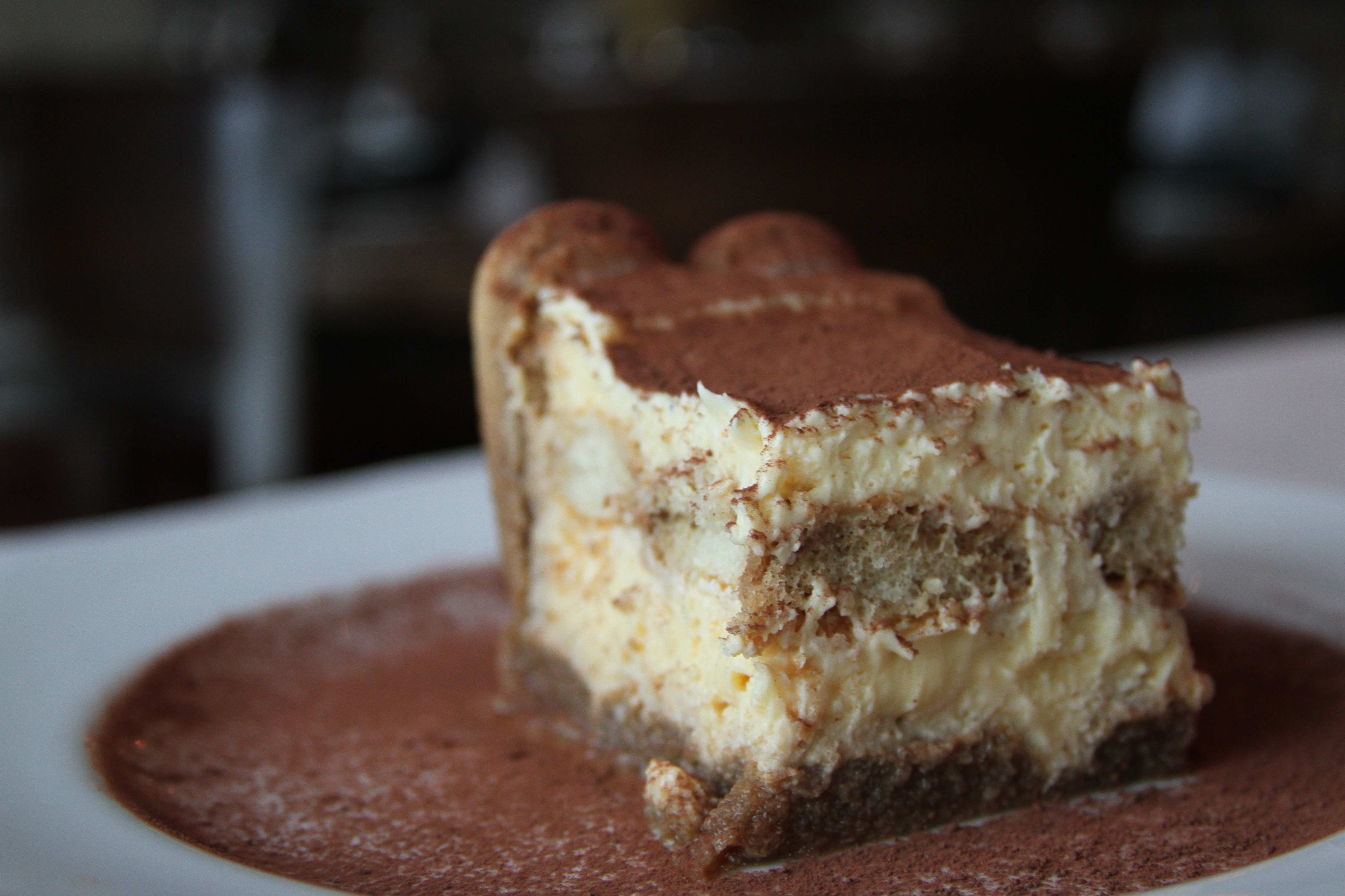 A serving of tiramisu dusted with cacao.